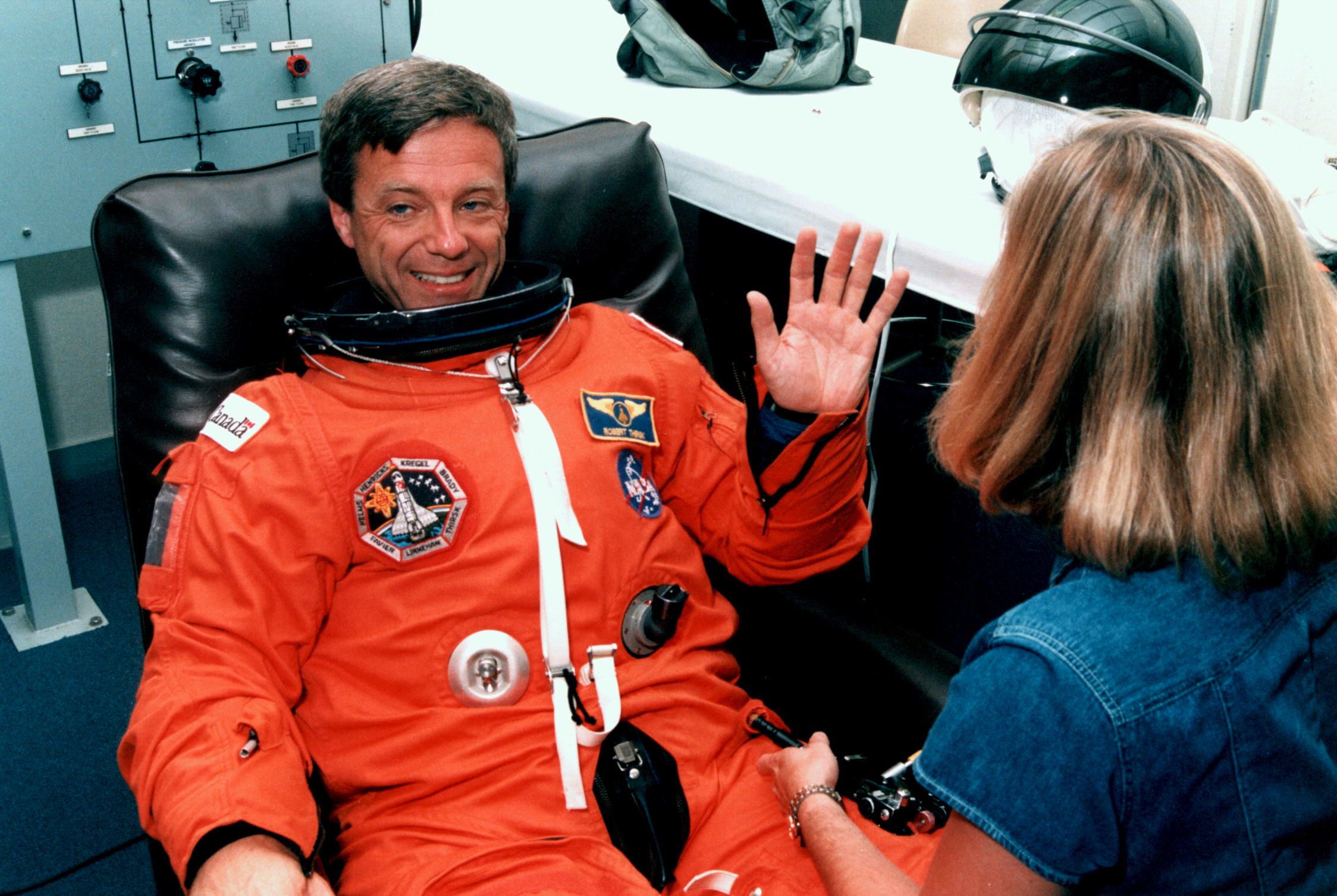 Payload Specialist Robert Brent Thirsk, CSA Astronaut, suits up prior to the STS-78 mission in June 1996.